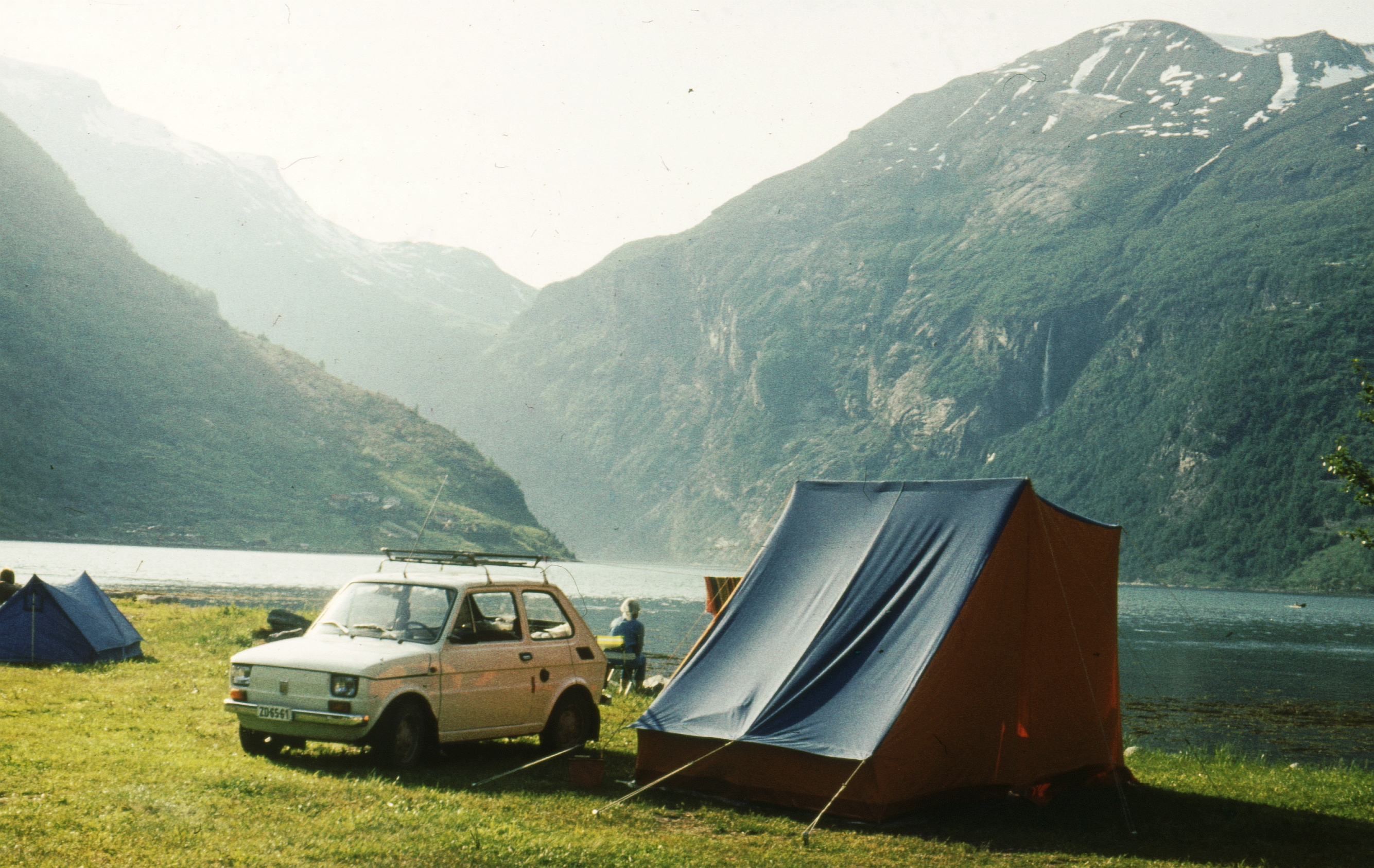 Location: Norway, Geiranger Tags: camping, colorful, Polski Fiat-brand, Polish brand, automobile, tent